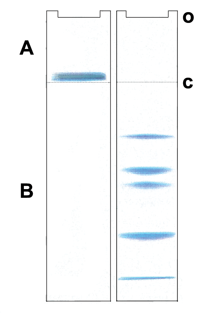 The Laemmli system for SDS-PAGE A - Stacking gel B - Separating gel O - origin (sample wells) C - Boundary between buffer and gel matrix